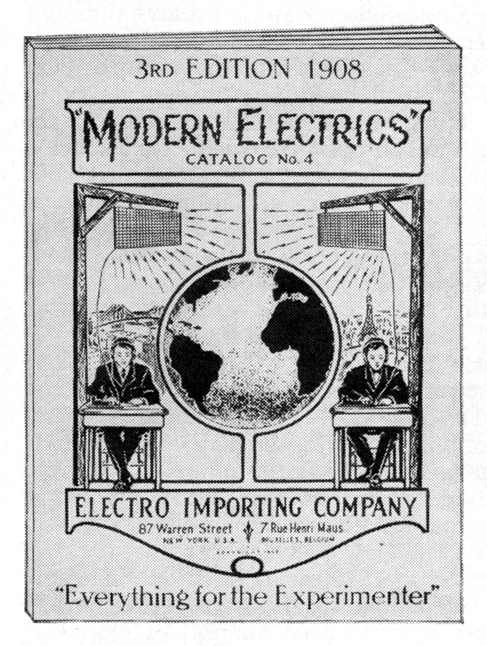 Electro Importing Company 1908 Catalog Number 4. The Modern Electrics title was added to the catalog in 1907. Modern Electrics became a separate magazine in April 1908. The catalog was still published with new cover designs. See Image:Electrical Experimenter Aug 1916 pg277.png Published by Electro Importing Company. 87 Warren Street, New York, NY. Hugo Gernsback, President.